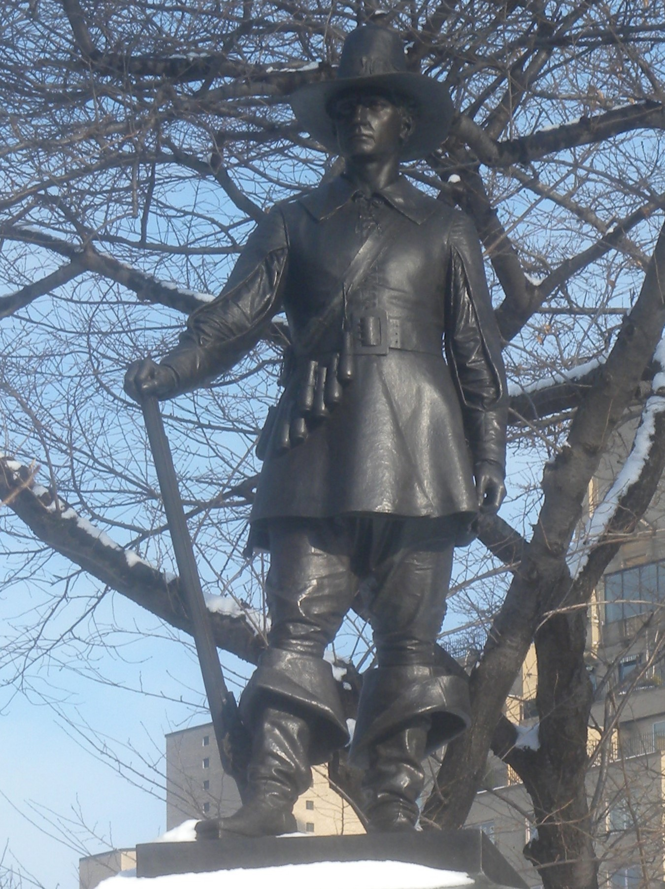 Looking east at Pilgrim statue on a sunny afternoon after snow.